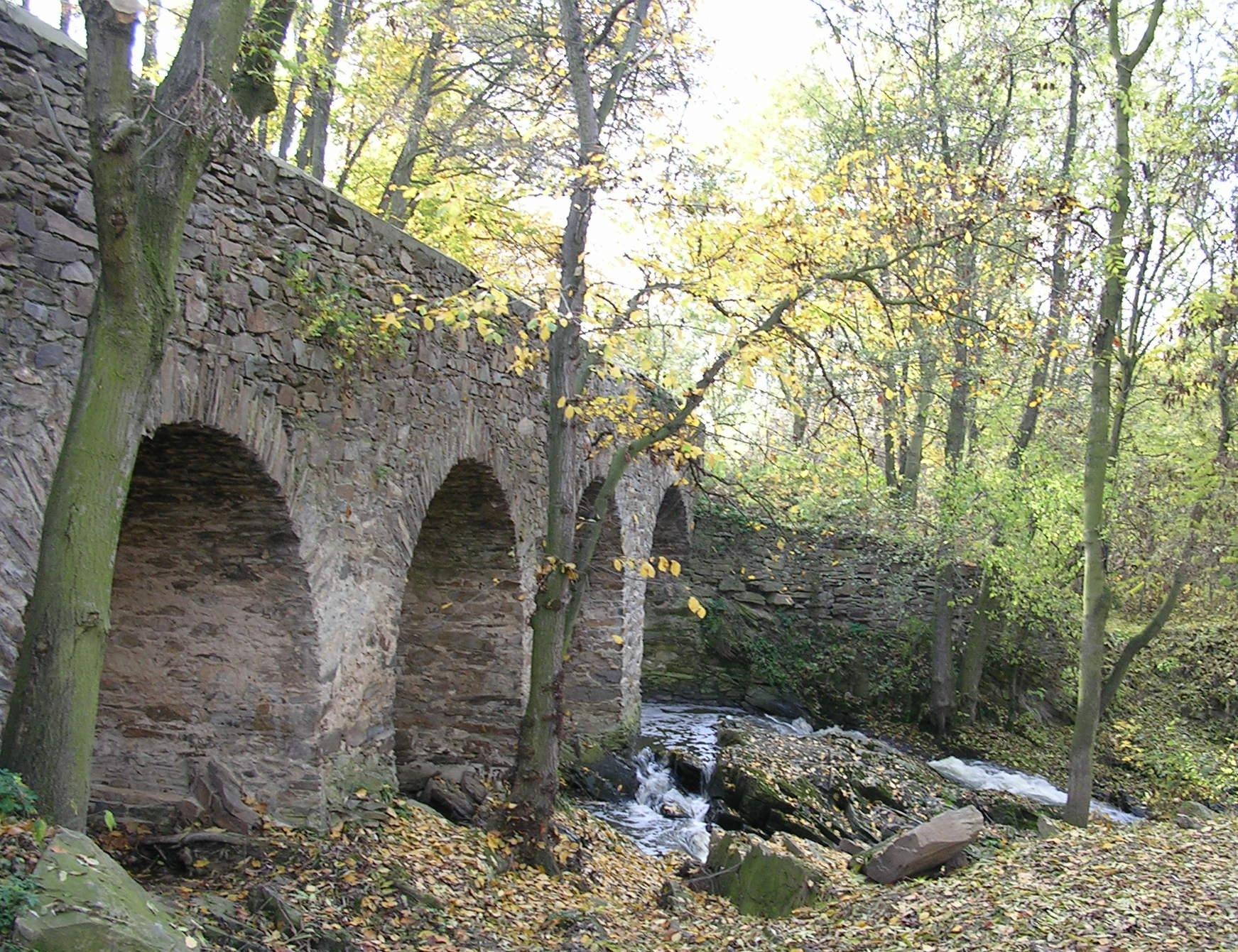 Toušice, Central Bohemian Region, the Czech Republic.